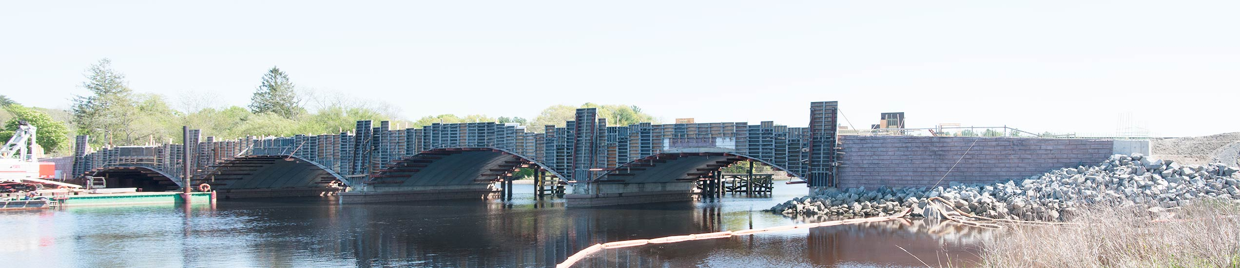 Berkley-Dighton Bridge from the northwest during construction. Arches are complete, but spandrels are not yet filled.